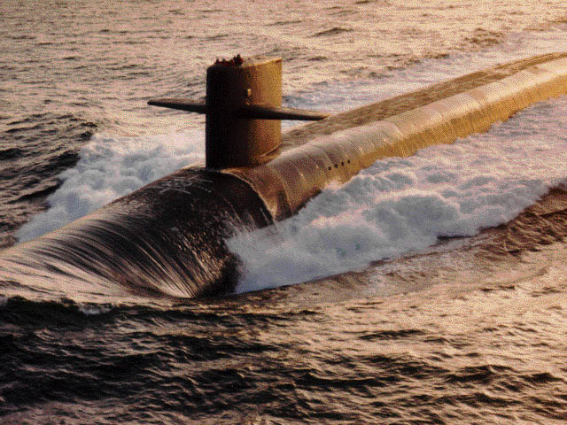 USS Maryland (SSBN-738)